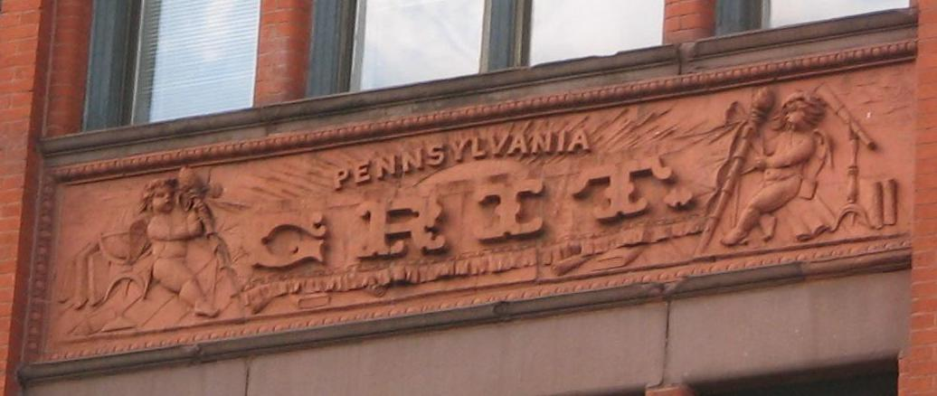 Logo of the Grit Newspaper on its former headquarters, Williamsport, Pennsylvania USA